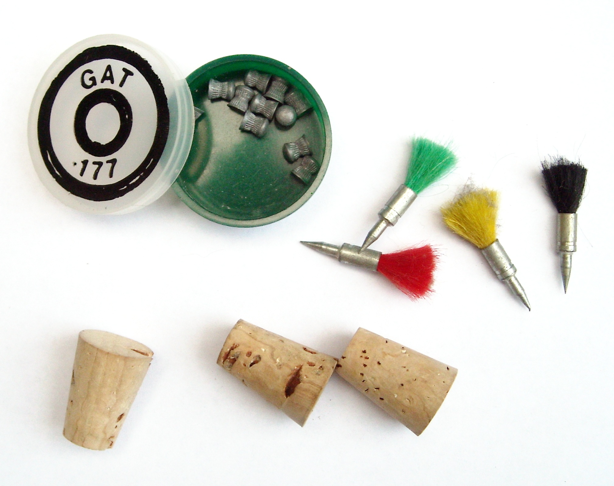 Examples of the three types of ammunition supplied with the Gat air pistol:- corks, darts and pellets. Though the box for the pellets is original, the pellets may not be.